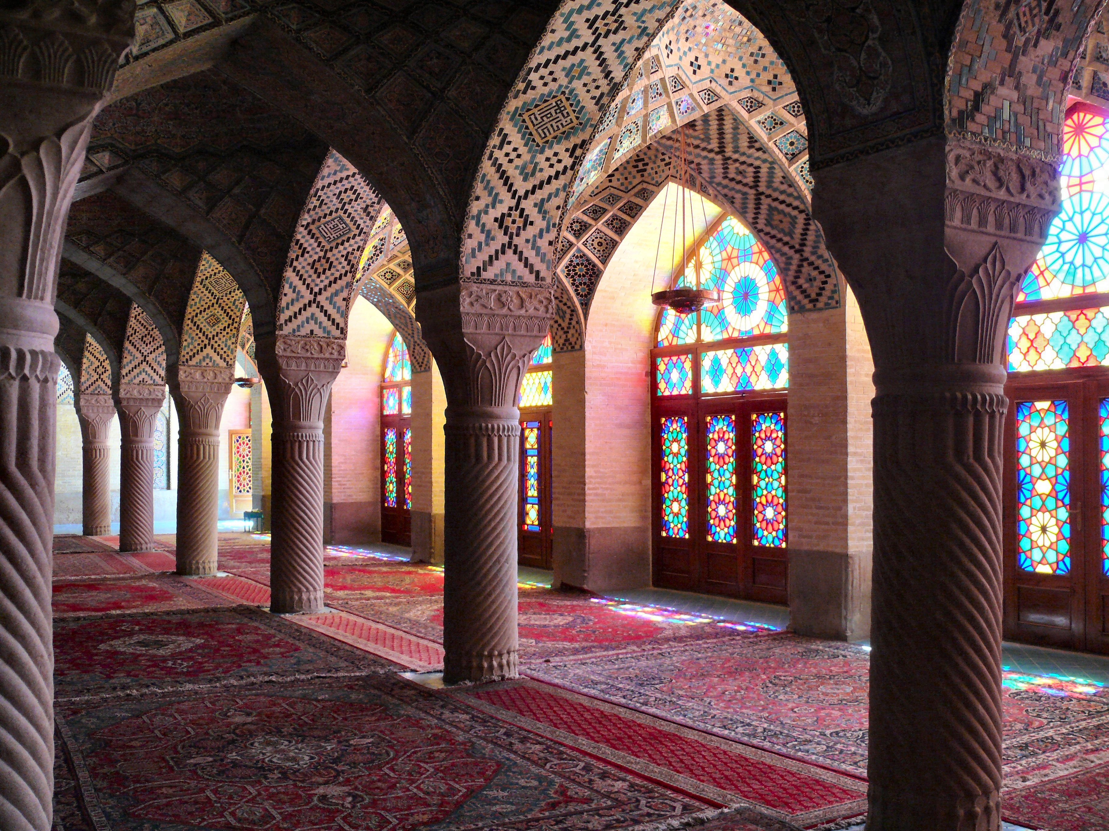 Multicolored praying room of the Nasr Ol Molk Mosque — at Shiraz, Fars province, Iran. Example of Qajar era architecture. April 2008